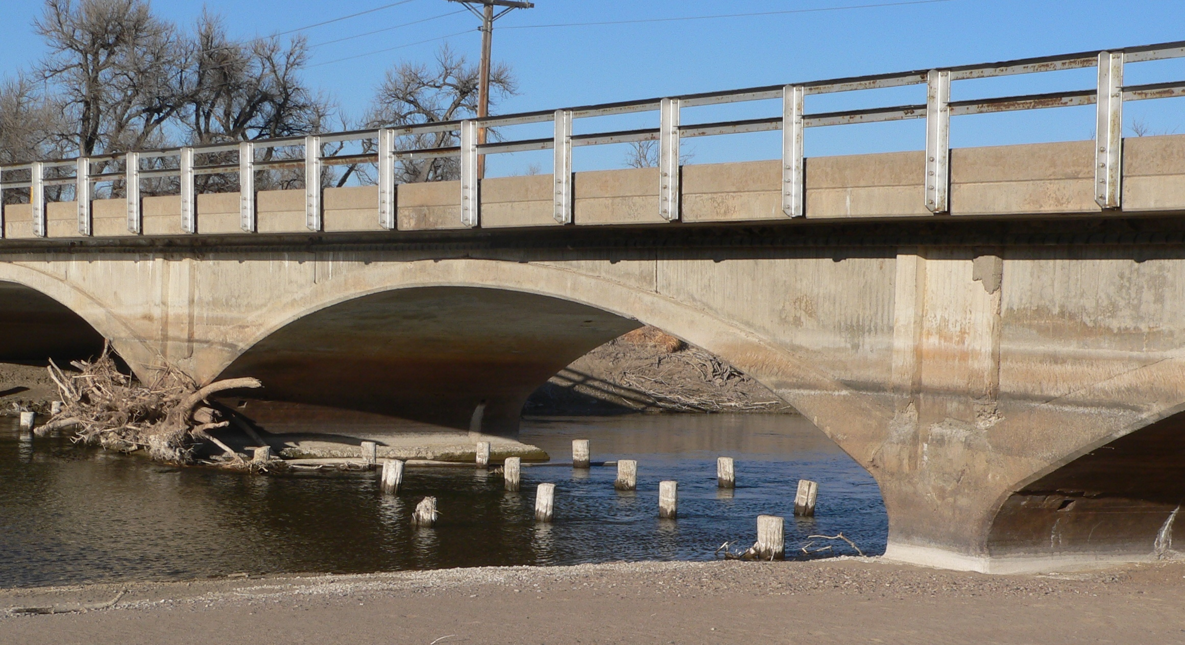 Southern of two Henry State Aid Bridges, carrying a paved road across the North Platte River just south of Henry, Nebraska. Second of six spans, counting from the north. Camera is facing generally eastward (downstream).